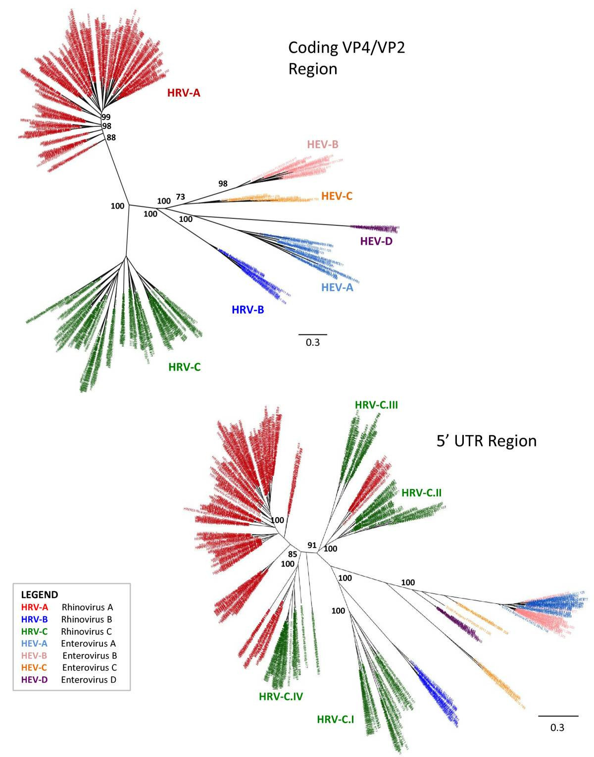 Original caption: "Phylogenetic analyses of HRV and HEV. This illustrates that recombination events are much more prevalent in the untranslated regions (UTRs) compared with a translated region (VP4/VP2). Separate alignments of the coding (VP4/VP2; 464 nt) and untranslated (5’UTR; 555 nt) regions’ sequences were constructed using MUSCLE v.3.8.31. Maximum likelihood phylogenetic trees were inferred separately for the non-coding and coding regions using PhyML v.3.0 using a general-reversible substitution model with gamma-distributed among-site rate variability. Samples are labeled by following format: “Sample code / Country of collection / Month- Year of collection.” Phylogenetic trees were colored by HRV species: HRV-A, HRV-B, HRV-C, and four types of HEV (HEV-A, HEV-B, HEV-C and HEV-D). In addition, four HRV-C clades show different recombination events and these are denoted individually as HRV-C.I to IV." Copyright/license notice: "Copyright © 2013 Garcia et al.; licensee BioMed Central Ltd. This is an open access article distributed under the terms of the Creative Commons Attribution License ( which permits unrestricted use, distribution, and reproduction in any medium, provided the original work is properly cited."